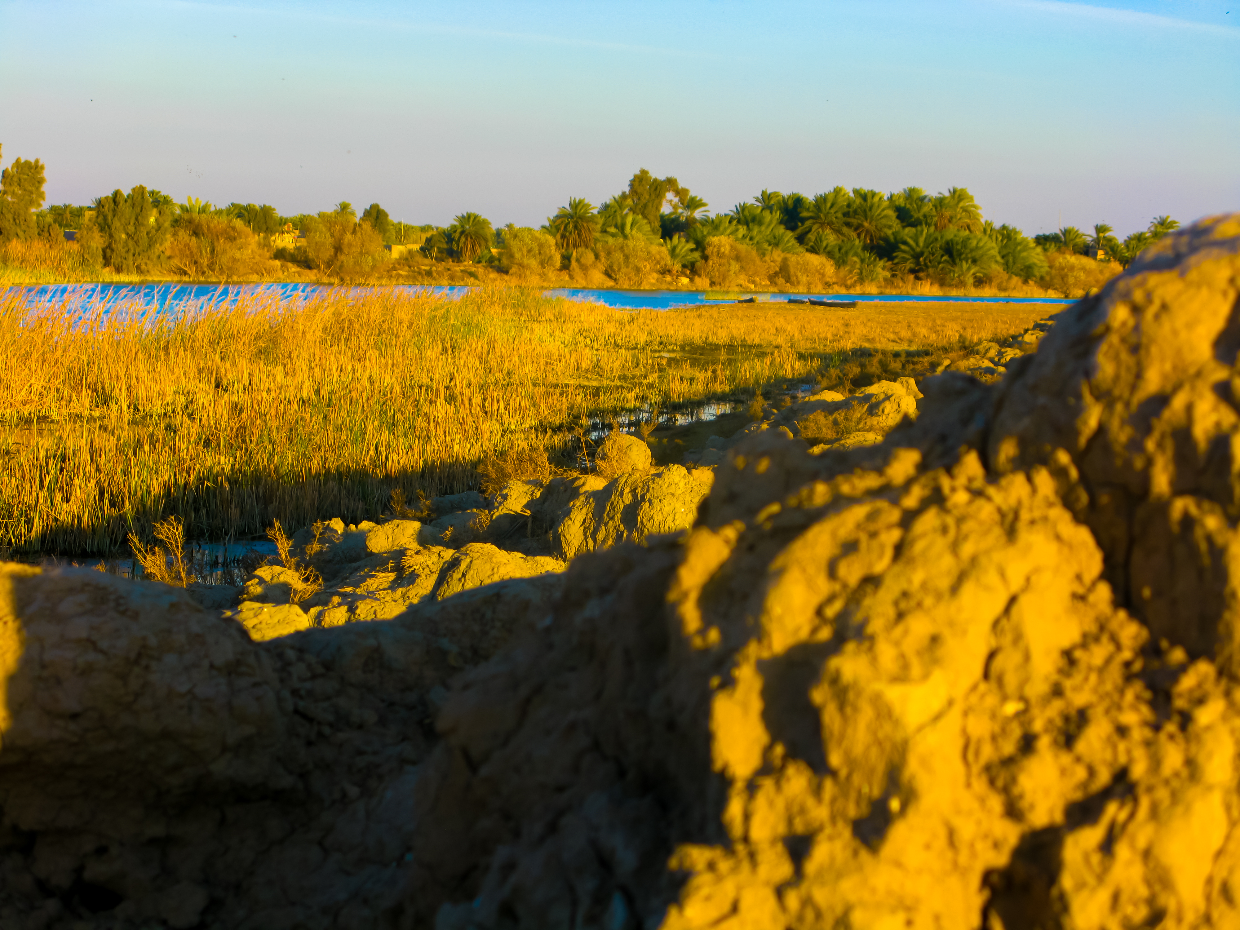 Marshes in southern Iraq